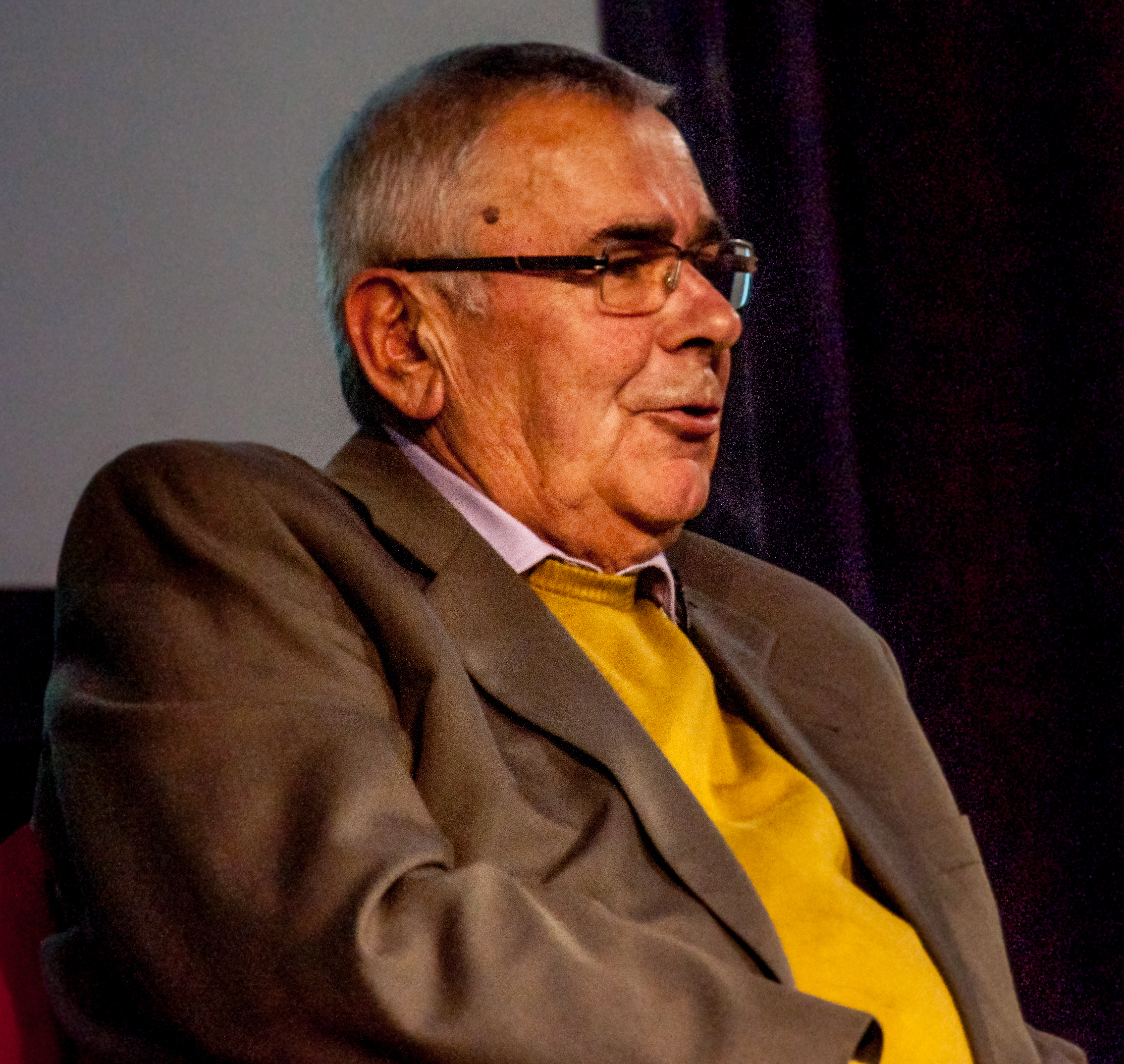 Harald Jaeger talk at Liverpool University